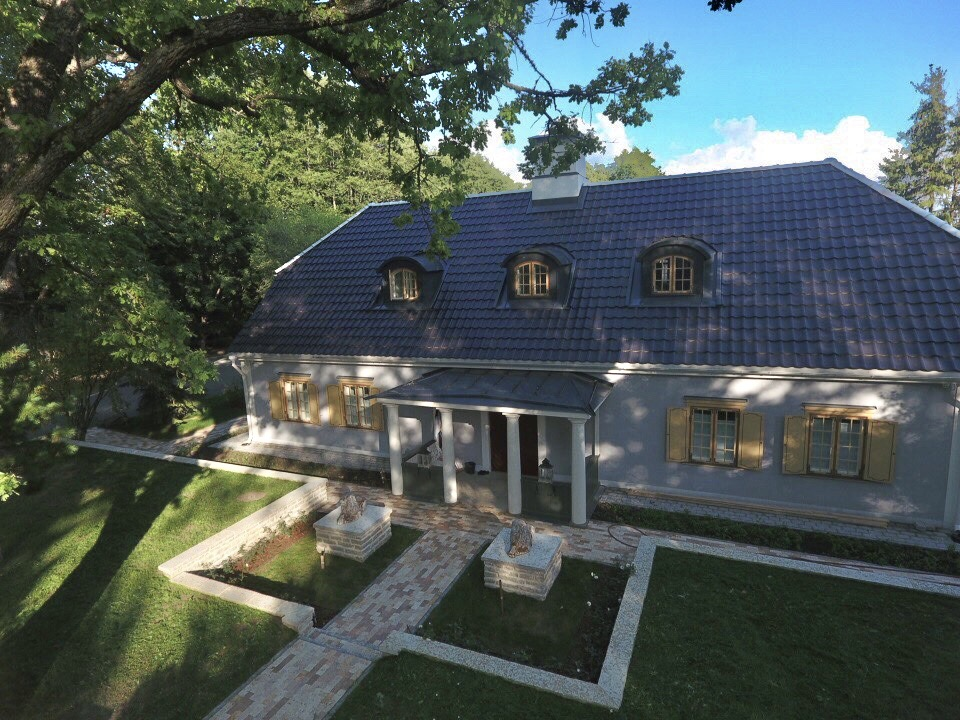 Vana-Pääla 2020